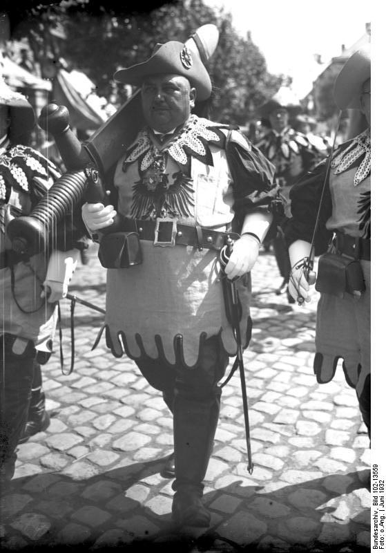 Procession at the 700th anniversary of Bernau near Berlin. The Berlin society "Alte Pankgrafen-Vereinigung" took part in the procession in their historical costumes.